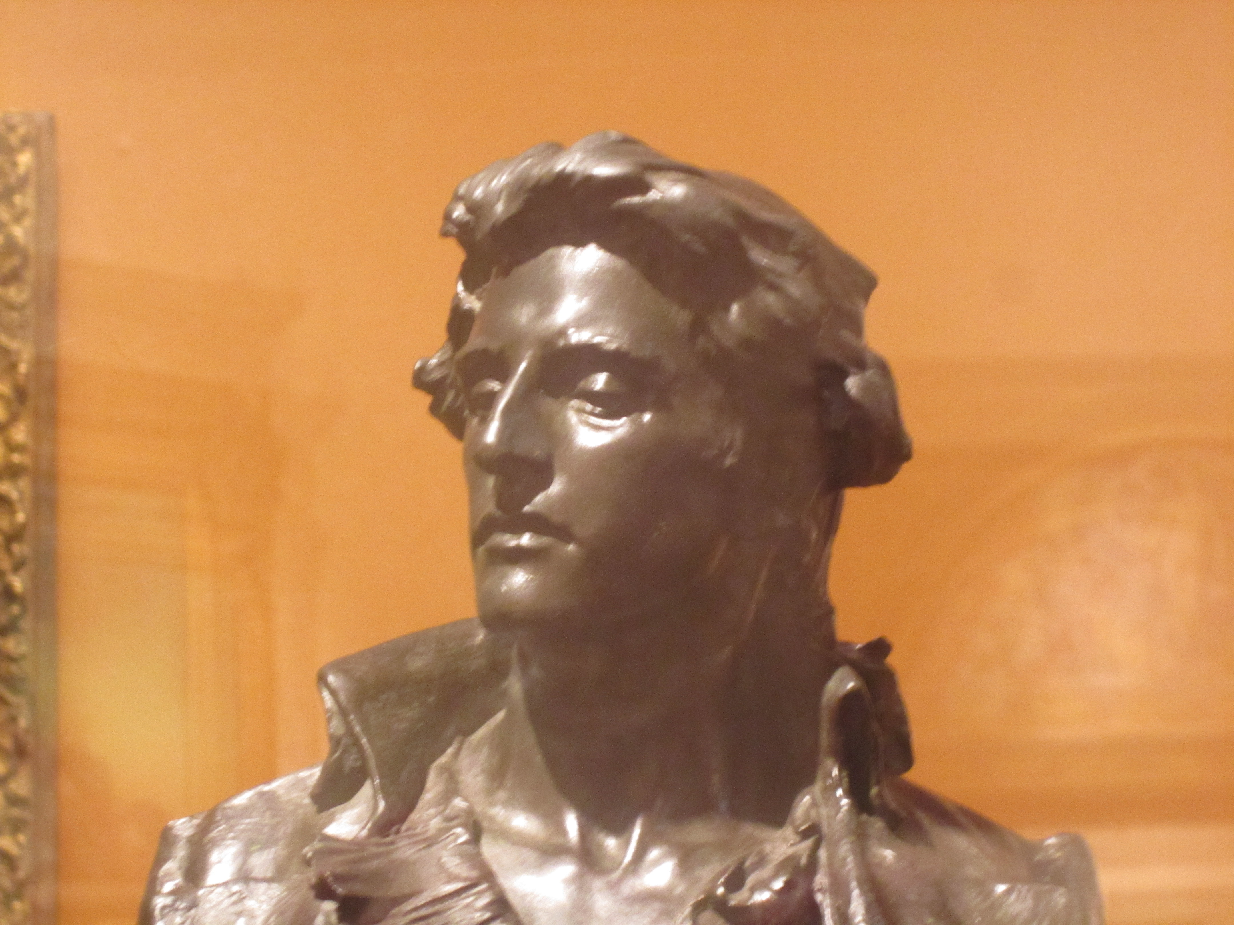 I took photo of Nathan Hale bronze by F.W. MacMonnies in Brooklyn Museum, using Canon camera.